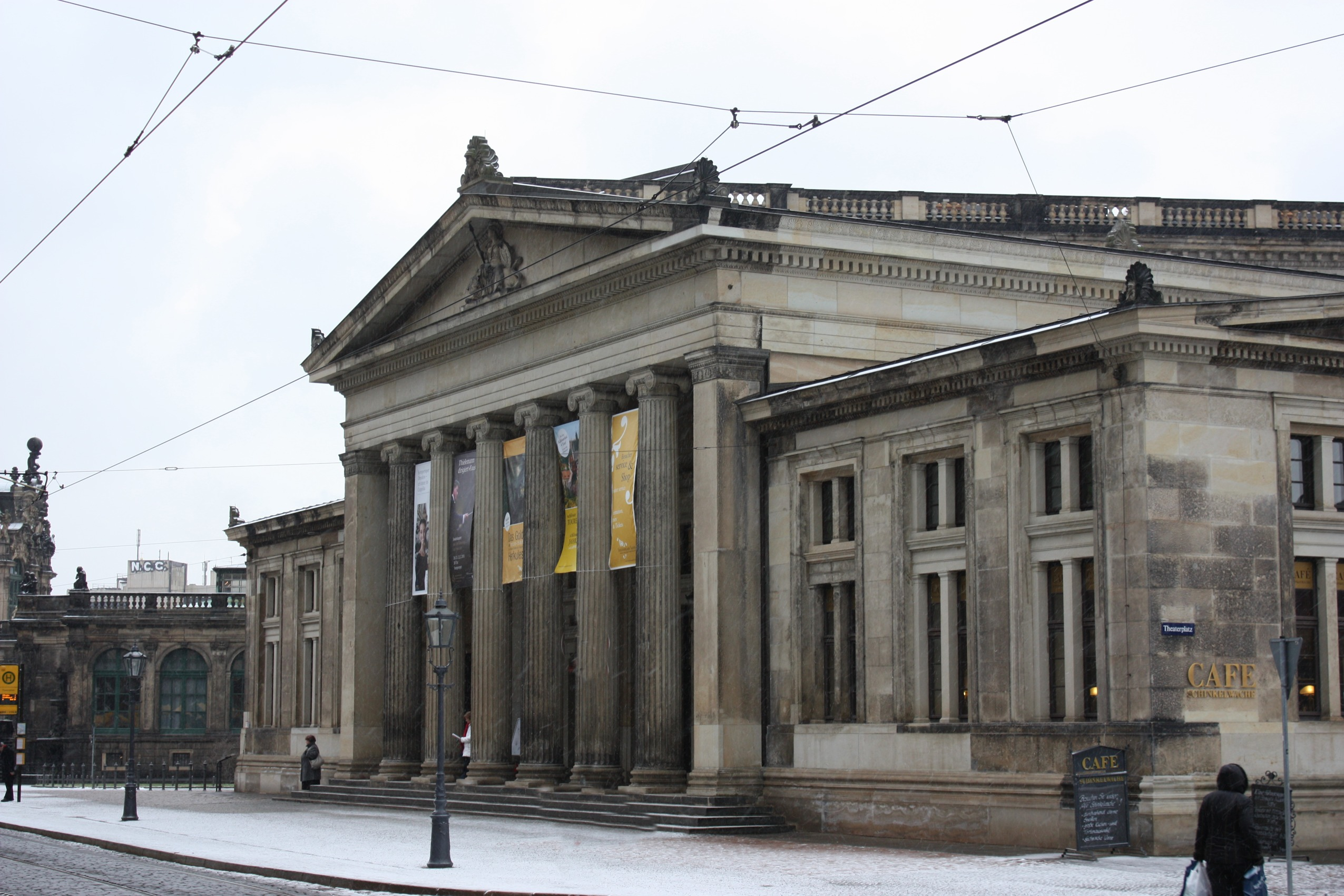 Dresden, the Schinkel guardhouse